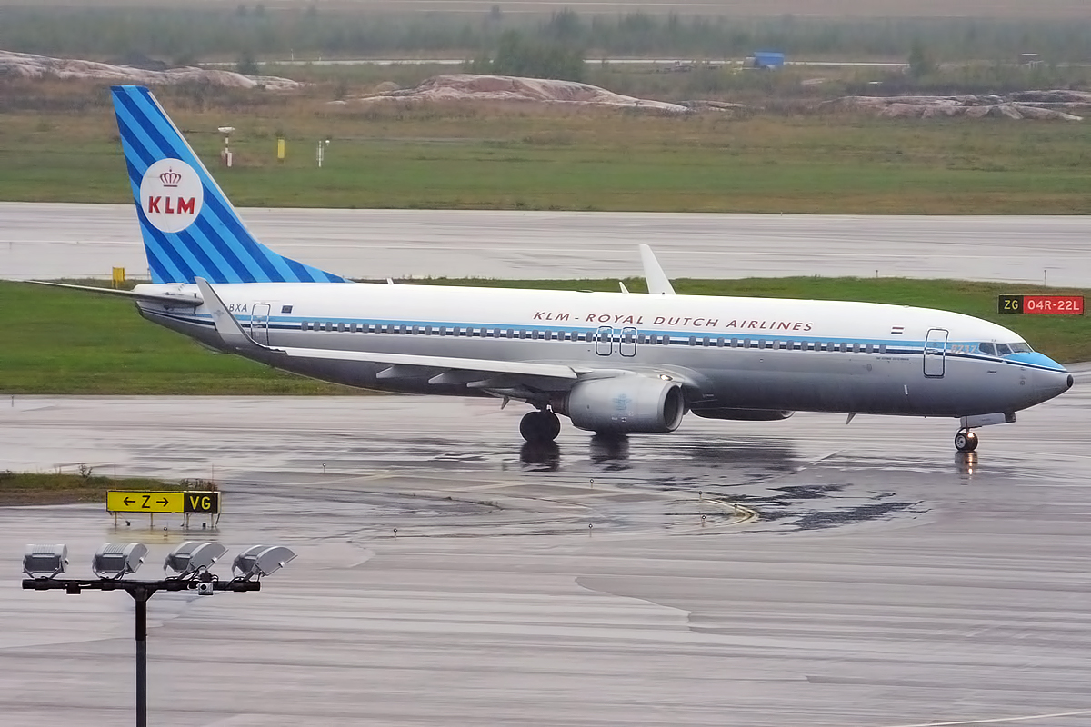 KLM (Retro livery), PH-BXA, Boeing 737-8K2